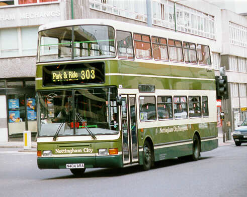 A Nottingham City Transport bus on park & ride route 303. It is a Dennis Arrow with Northern Counties double-deck body, registration mark N404 ARA, fleet number 404.